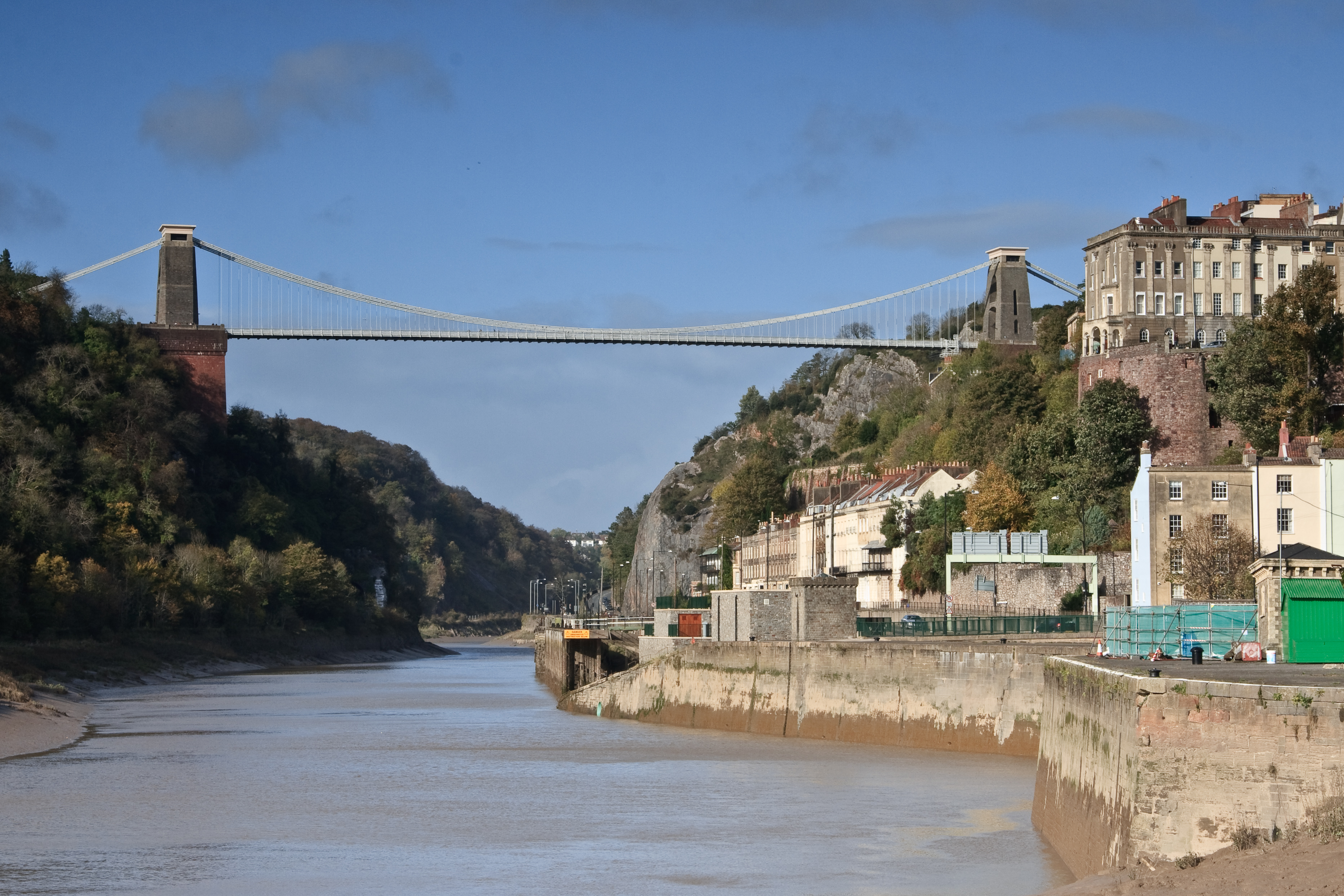 Clifton Suspension Bridge